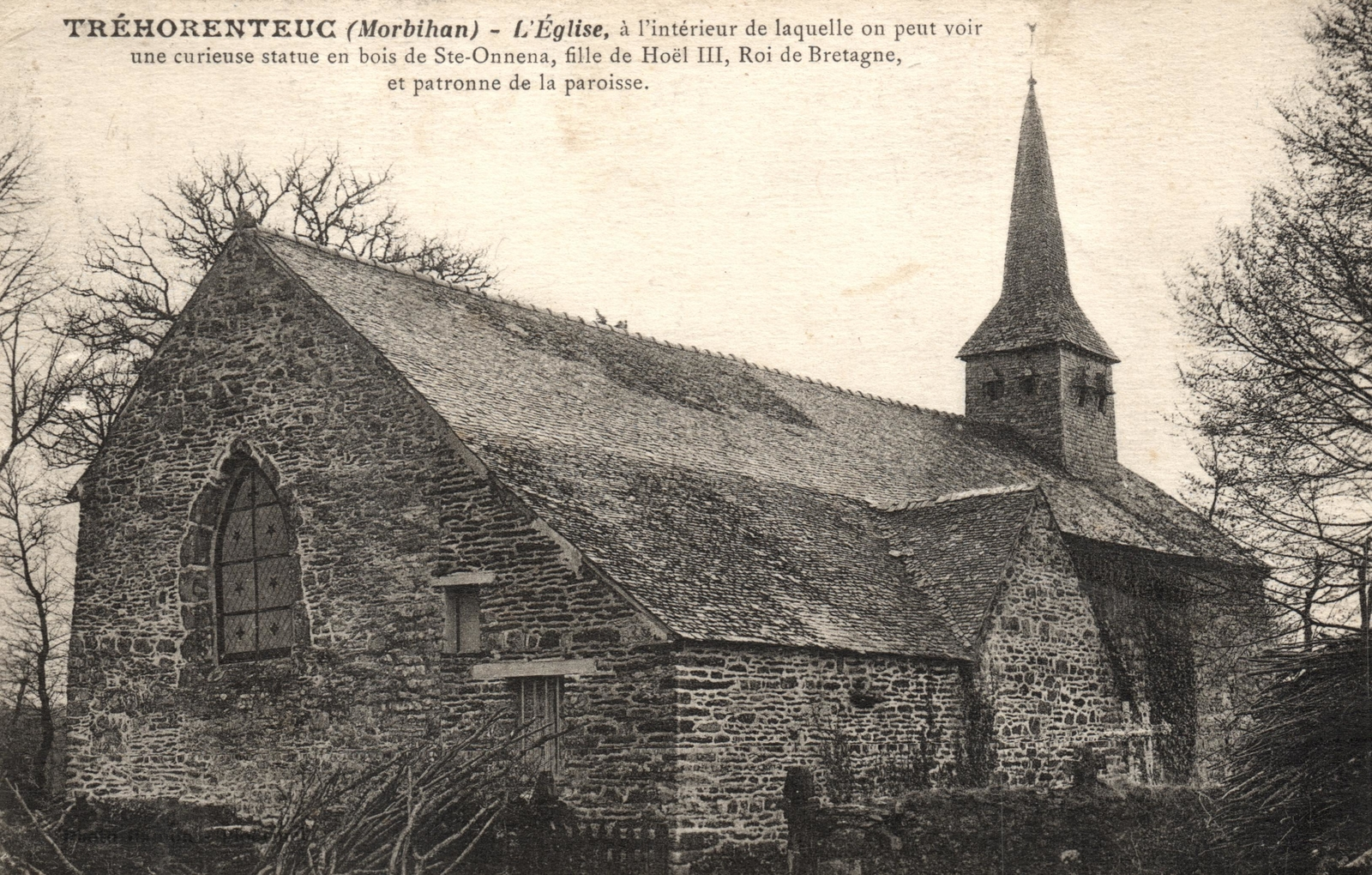 Old church Sainte-Onenne, Tréhorenteuc